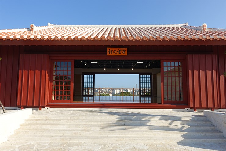 Special dojo (Shurei Hall), Okinawa Karate Kaikan.